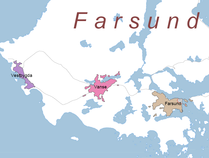 Urban areas of Farsund 2005